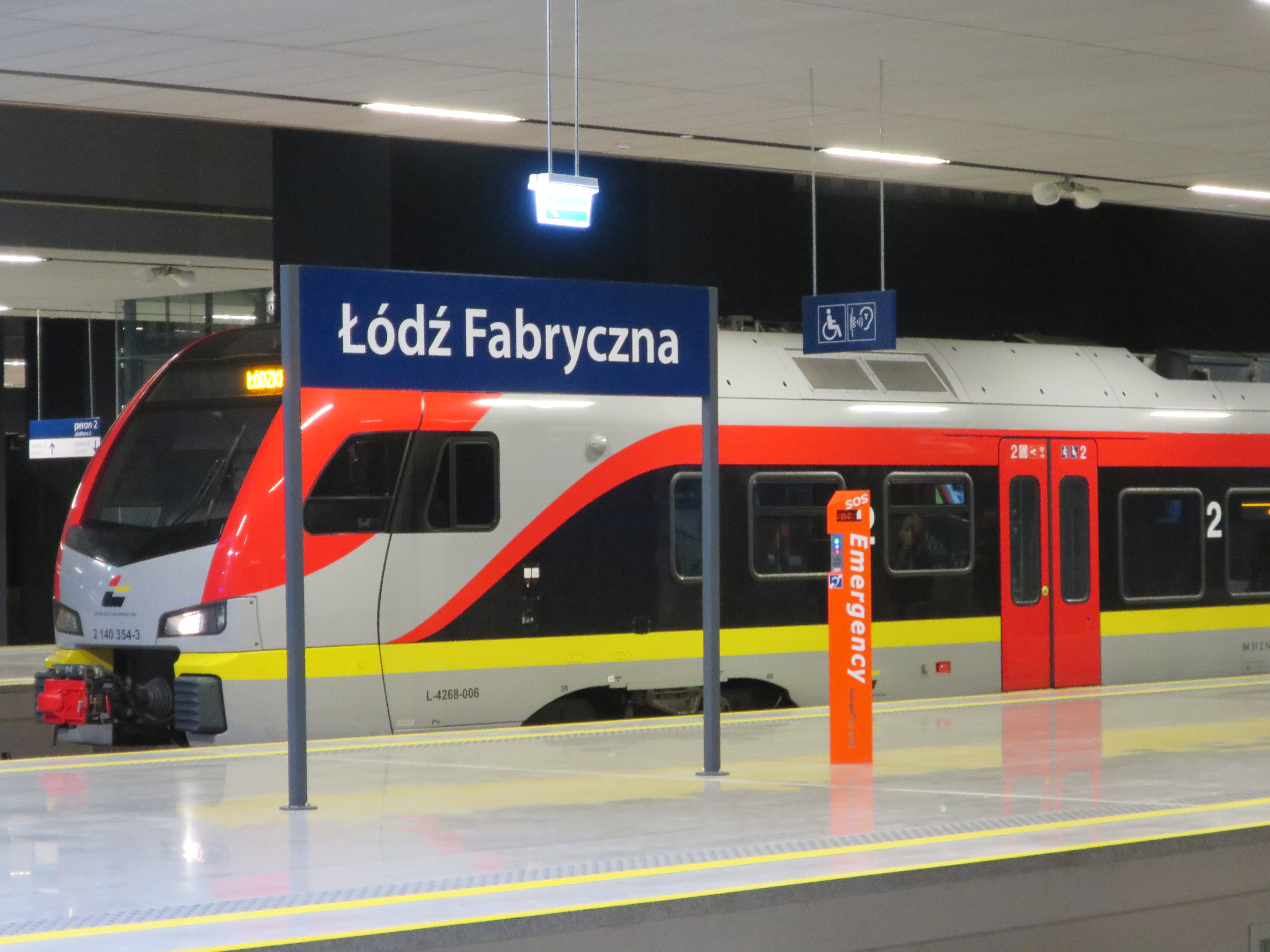 The making of this document was supported by Wikimedia Polska Association, within Wikigrant no. WG 2016-56. Łódź Fabryczna - perony